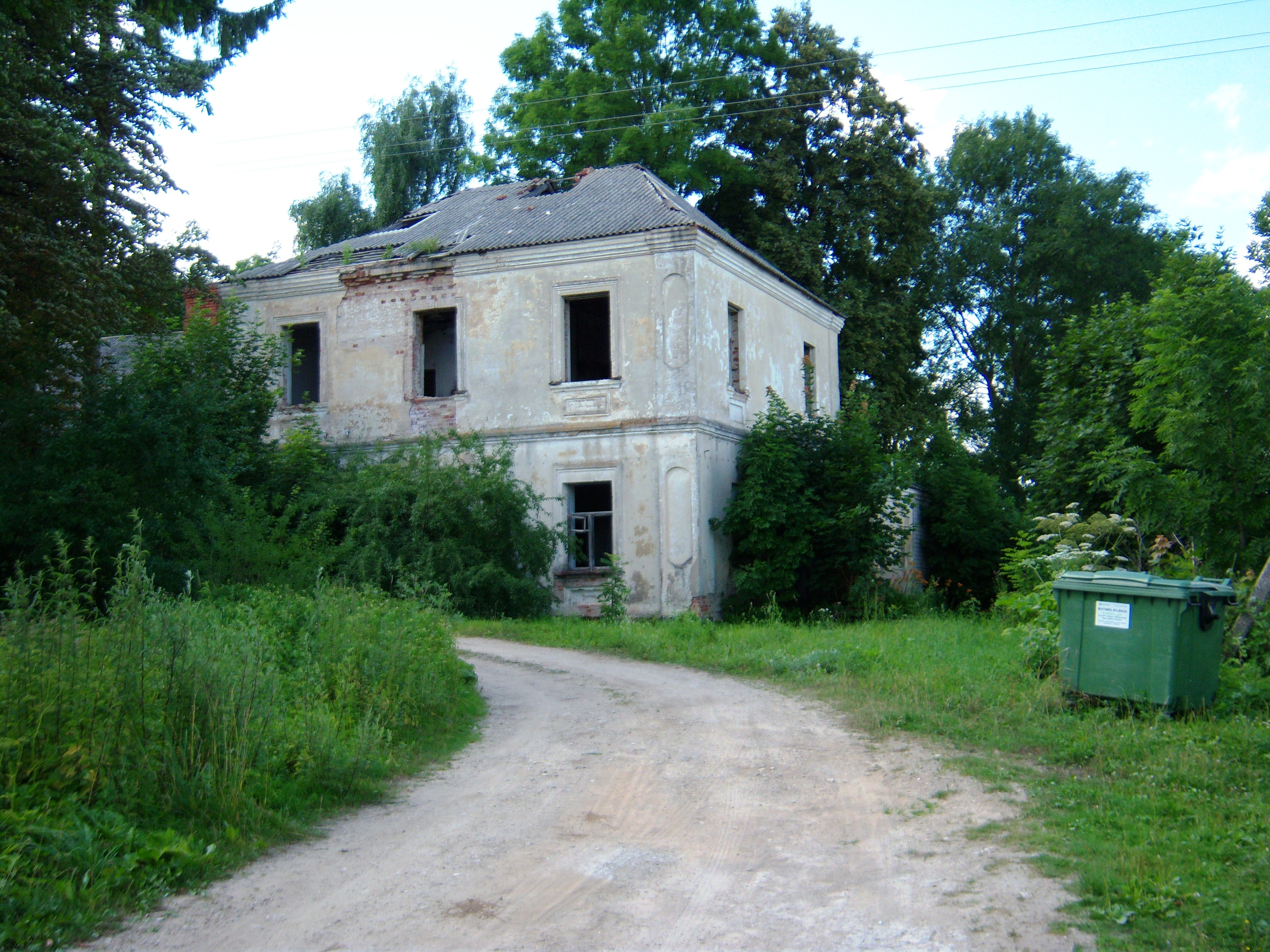 Former manor in Pagirmuonys, Prienai District, Lithuania